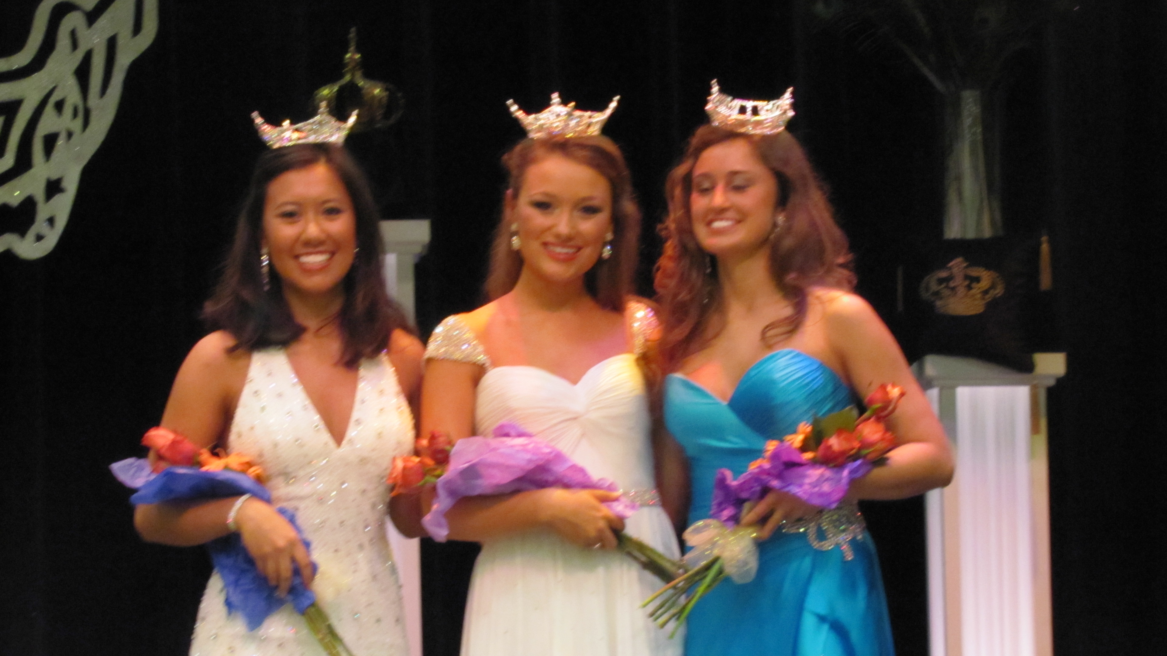 IMG_3338 Jenna Day at the Miss Berean Area Pageant on April 9, 2011